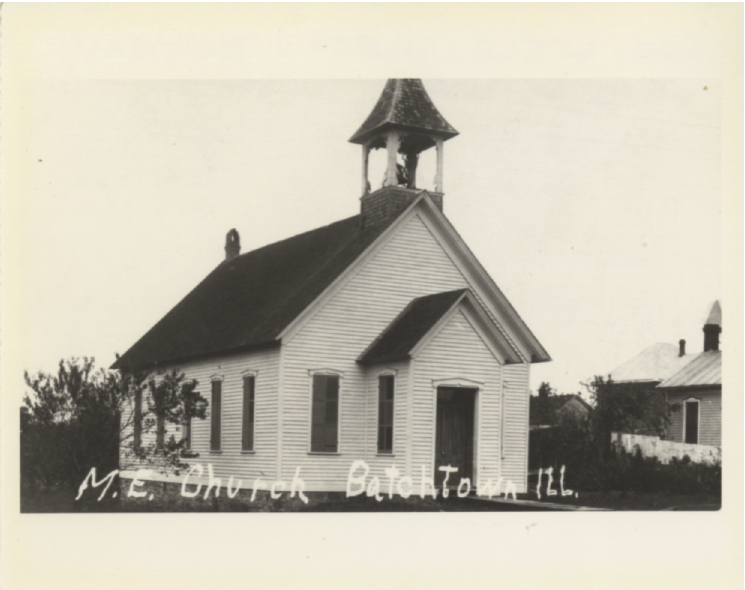 Methodist Church at the beginning of the 20th century